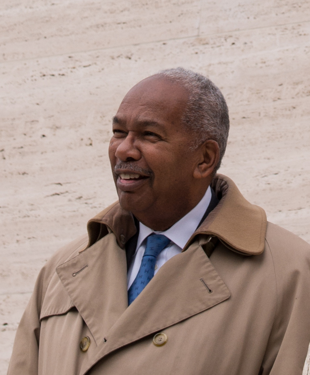 Ernest Green